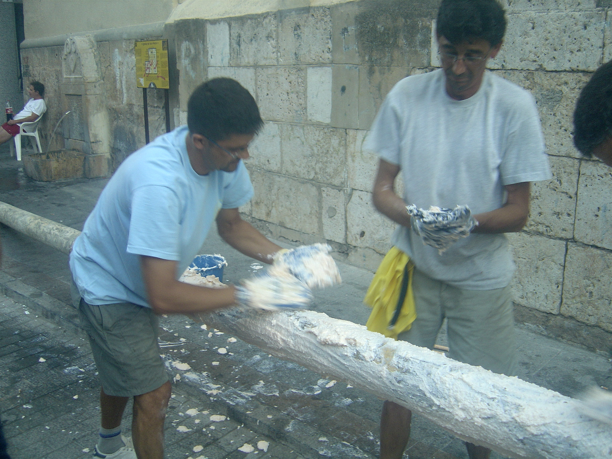 La Tomatina workers prepare the greased pole, which will be set vertically with a large ham suspended at the top.